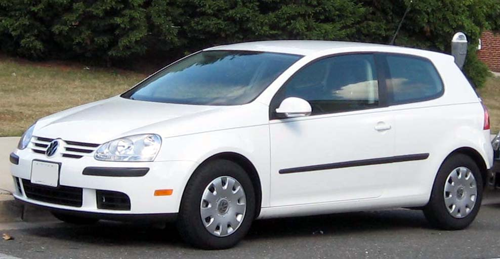 2007-2008 Volkswagen Rabbit photographed in College Park, Maryland, USA.